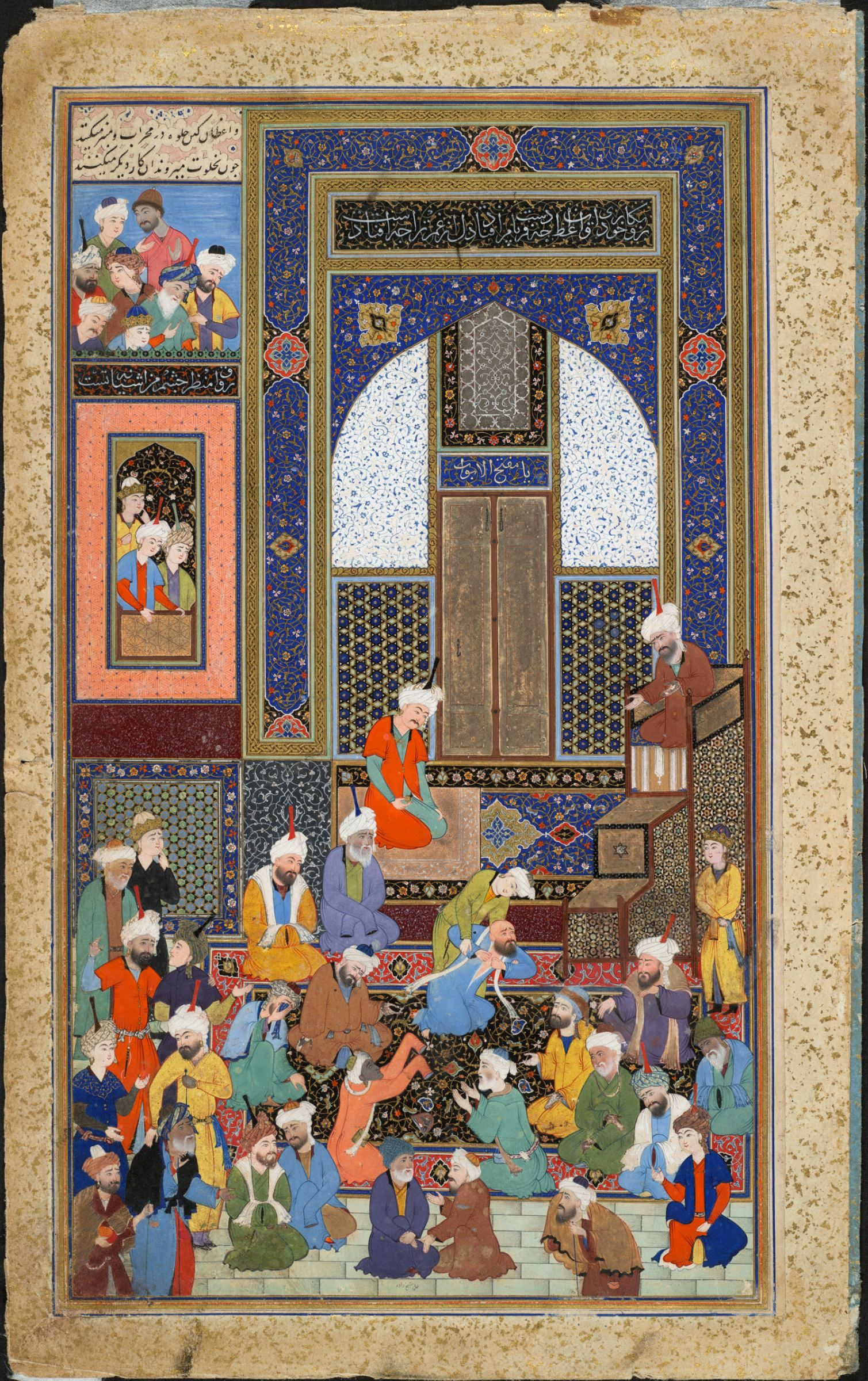 Incident in a Mosque by Shaykh Zada (active 1510–50). Iranian manuscript.